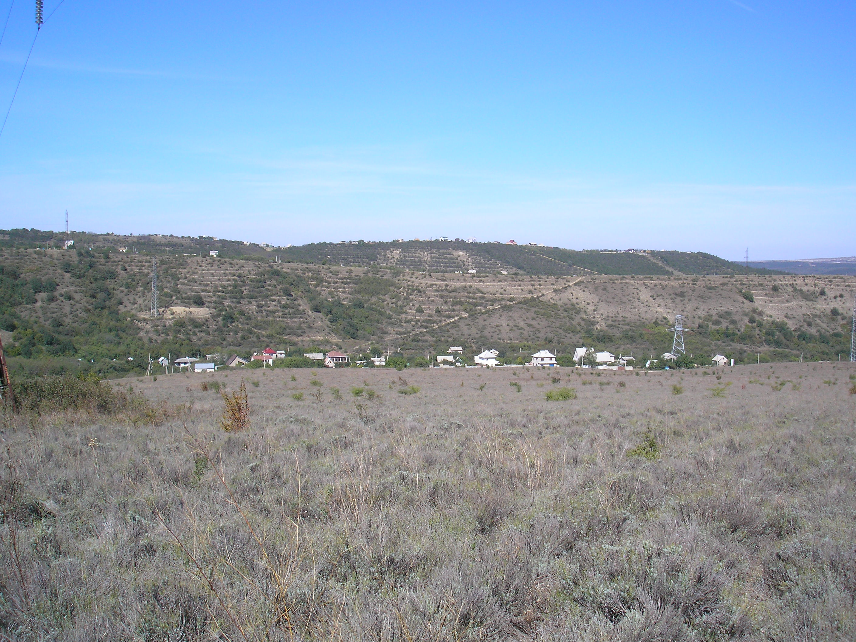 Village Tyoploe, Simferopol district, Crimea